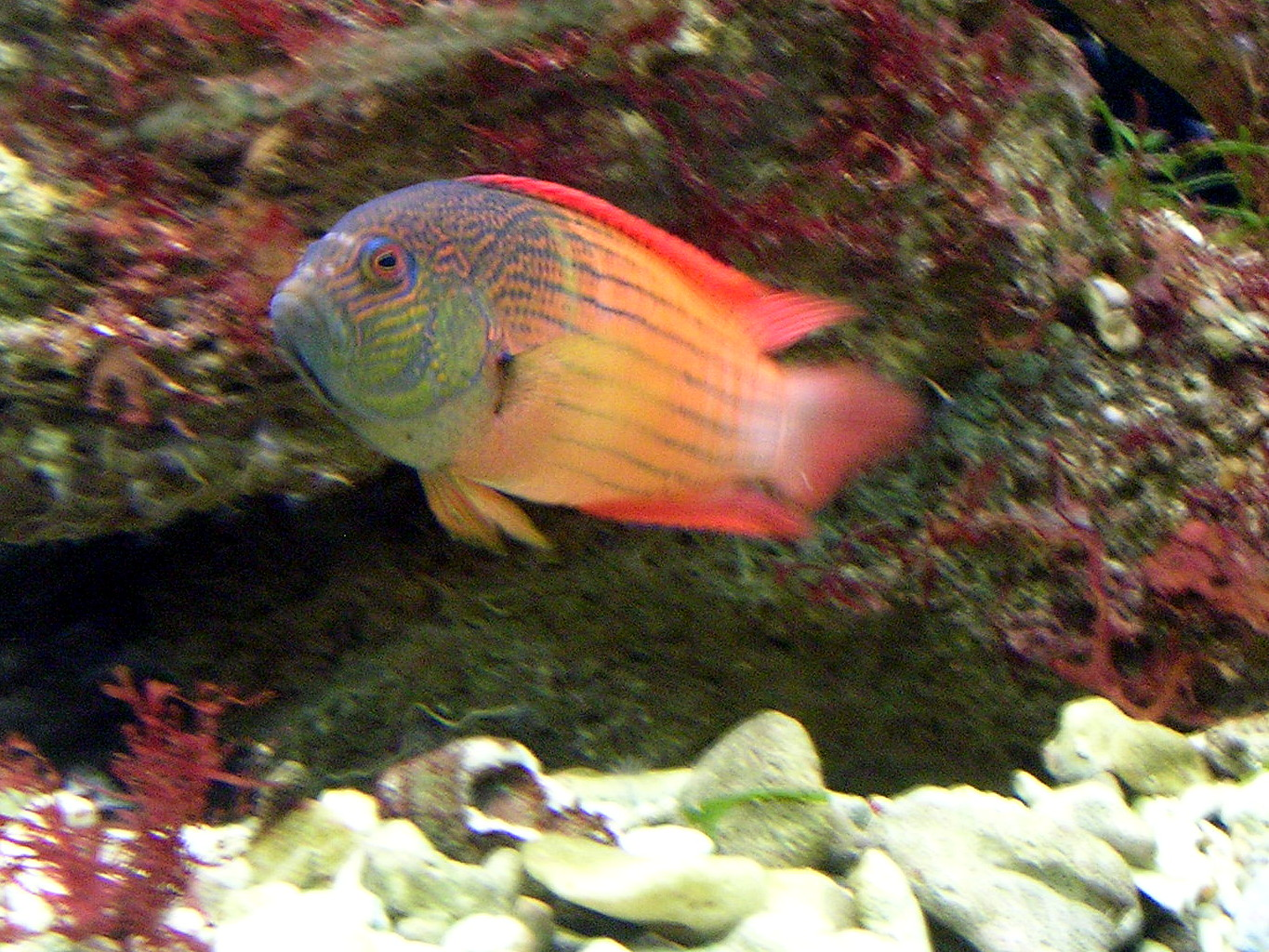 Liberec Botanical Garden.